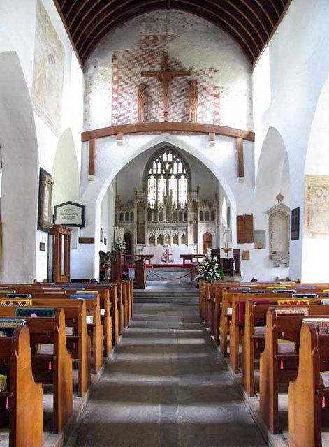 St Illtud, Llantwit Major, Glamorgan, Wales - East end